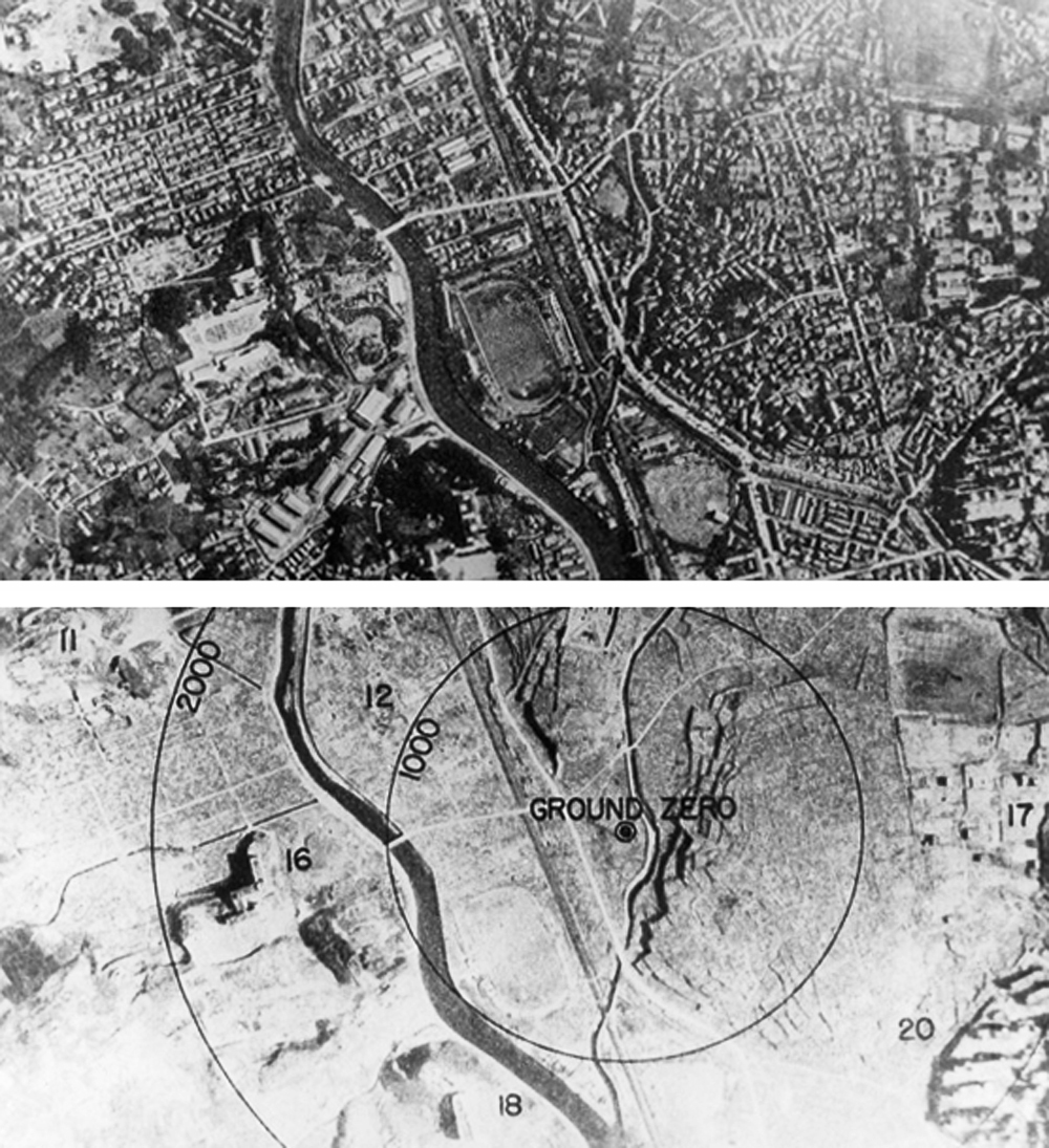 Nagasaki, Japan, before and after the atomic bombing of August 9, 1945. Adjusted version of File:Nagasaki 1945 - Before and after.jpg (rotation and scaling).